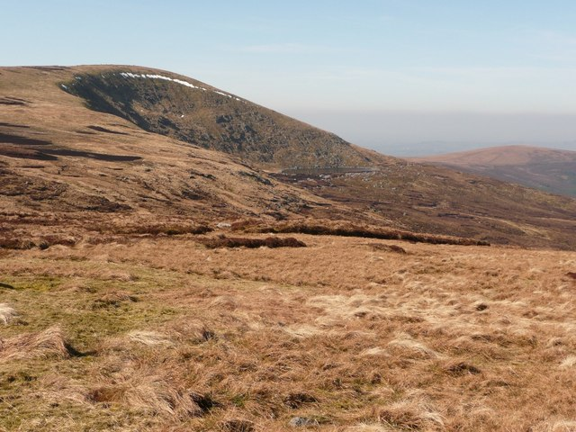 Cleevaun Lough The last of the spring snow clings to the north facing corrie of Mullaghcleevaun in which lies Cleevaun Lough.